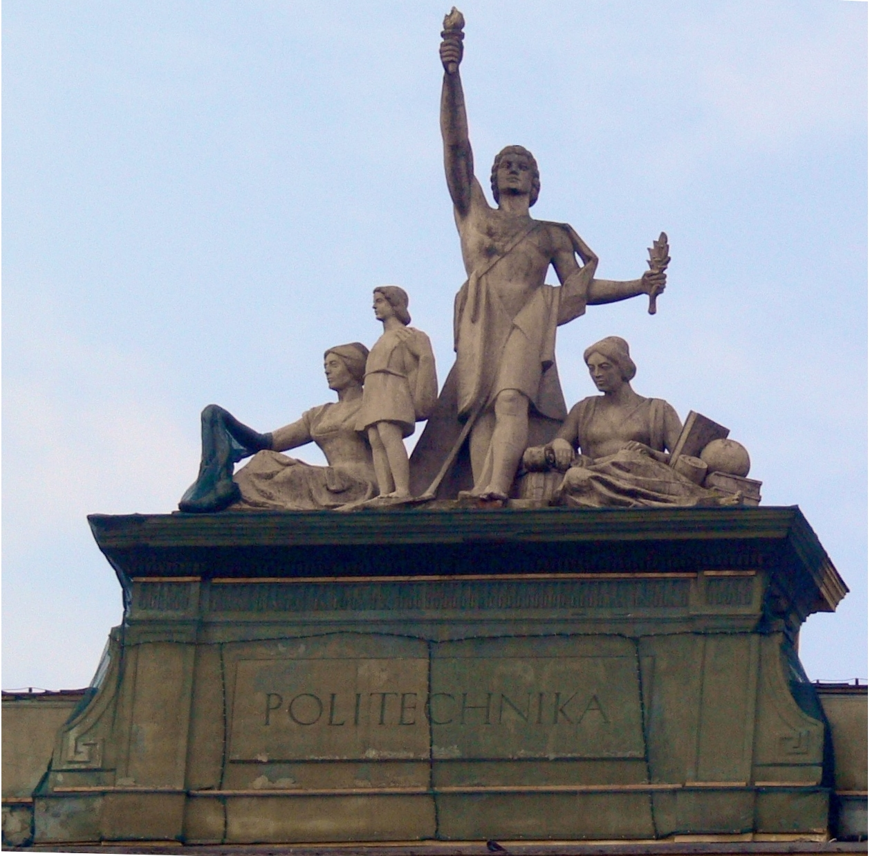 Crown of main building of Warsaw University of Technology